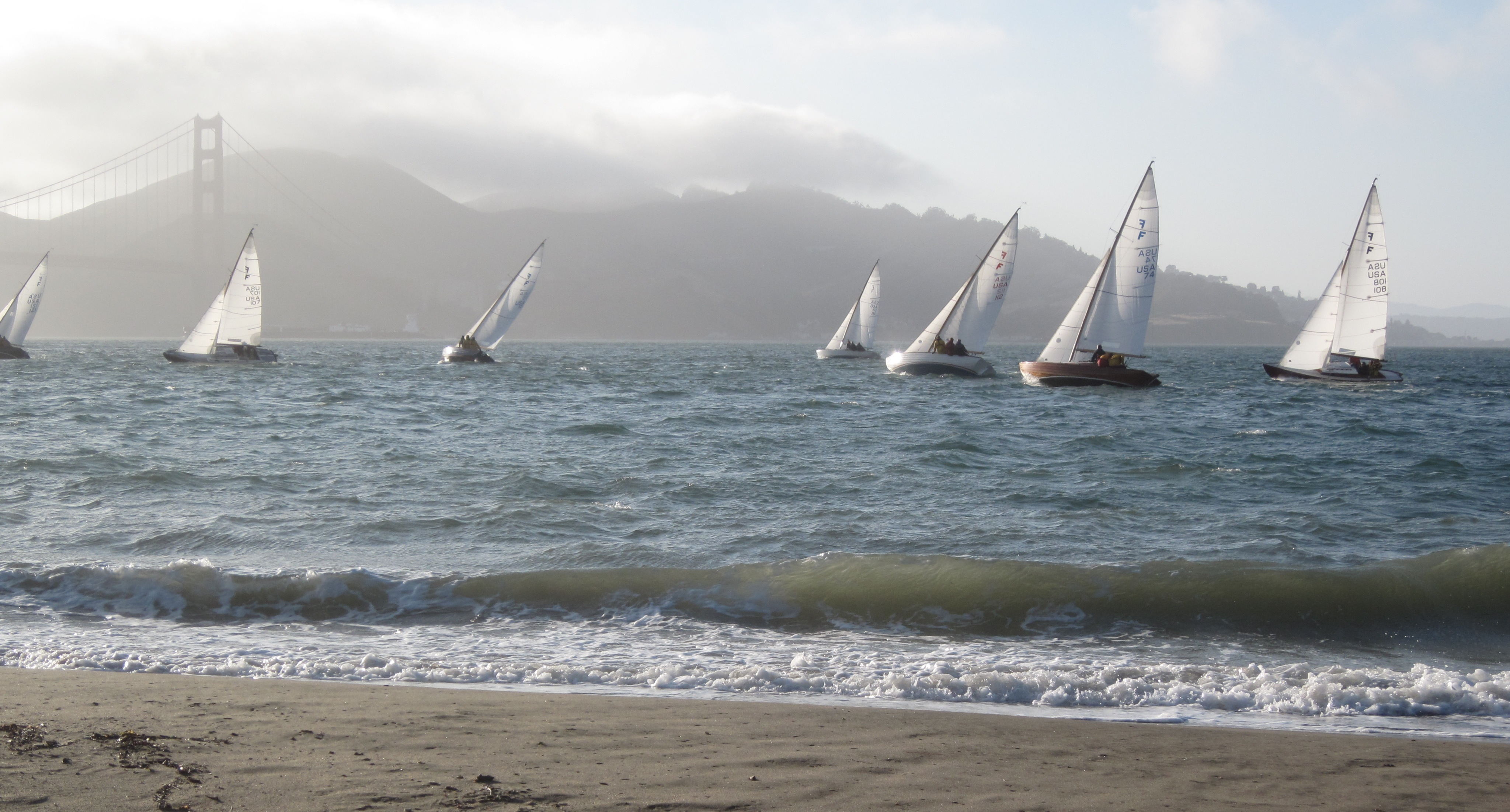 Nordic Folkboat Regatta on San Francisco Bay